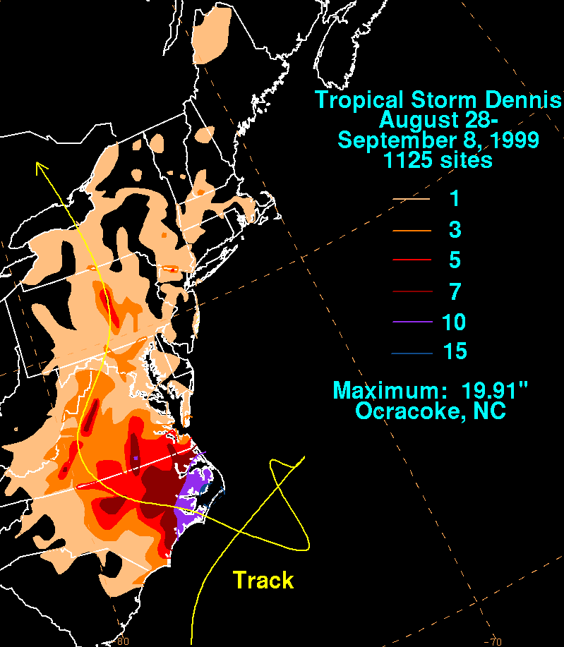 Rainfall produced by Hurricane Dennis during August and September 1999.